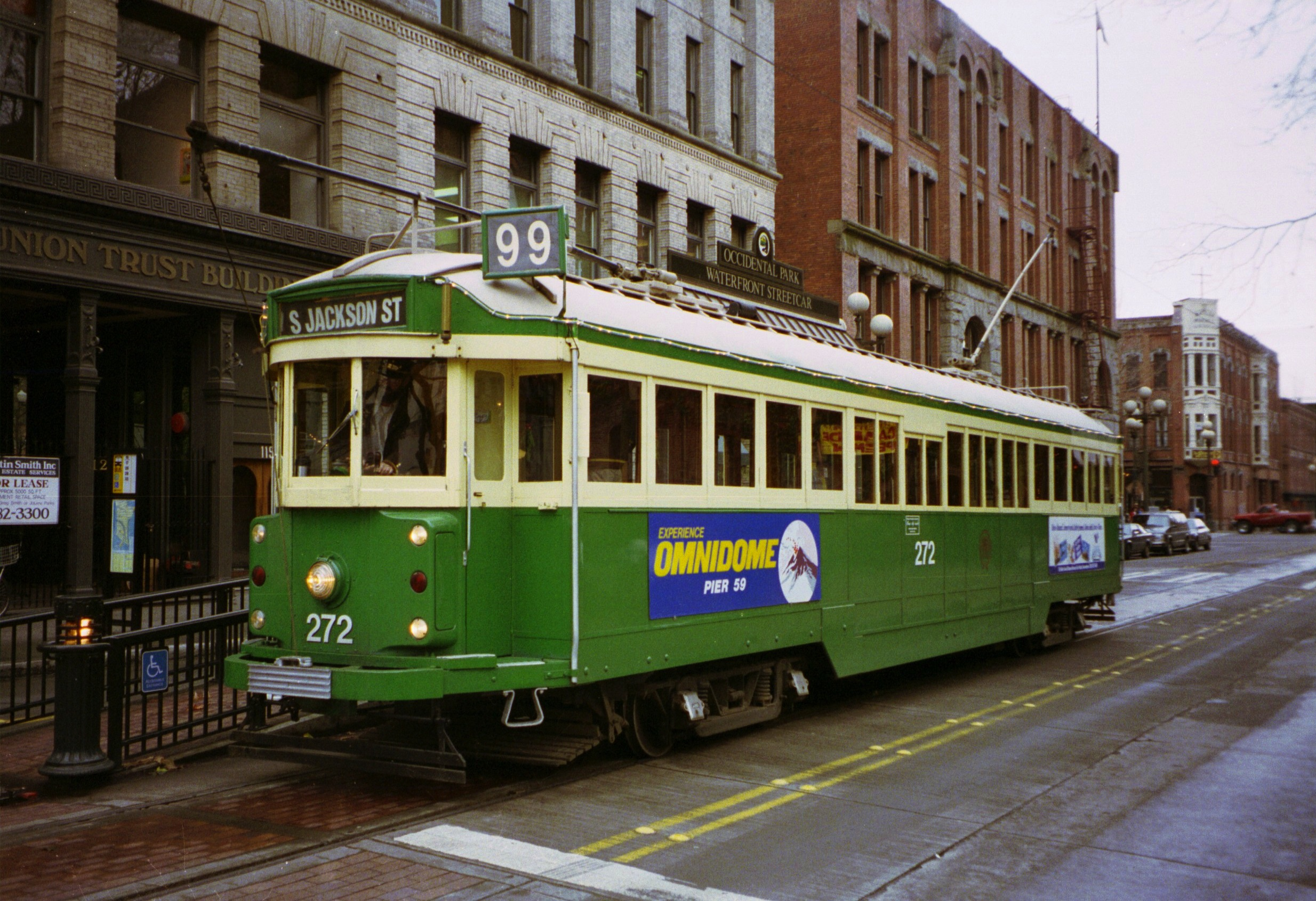 Ex-Melbourne W2-class tram/streetcar 272 eastbound at the Occidental Park station, on Main Street, on the Waterfront Streetcar line in Seattle.